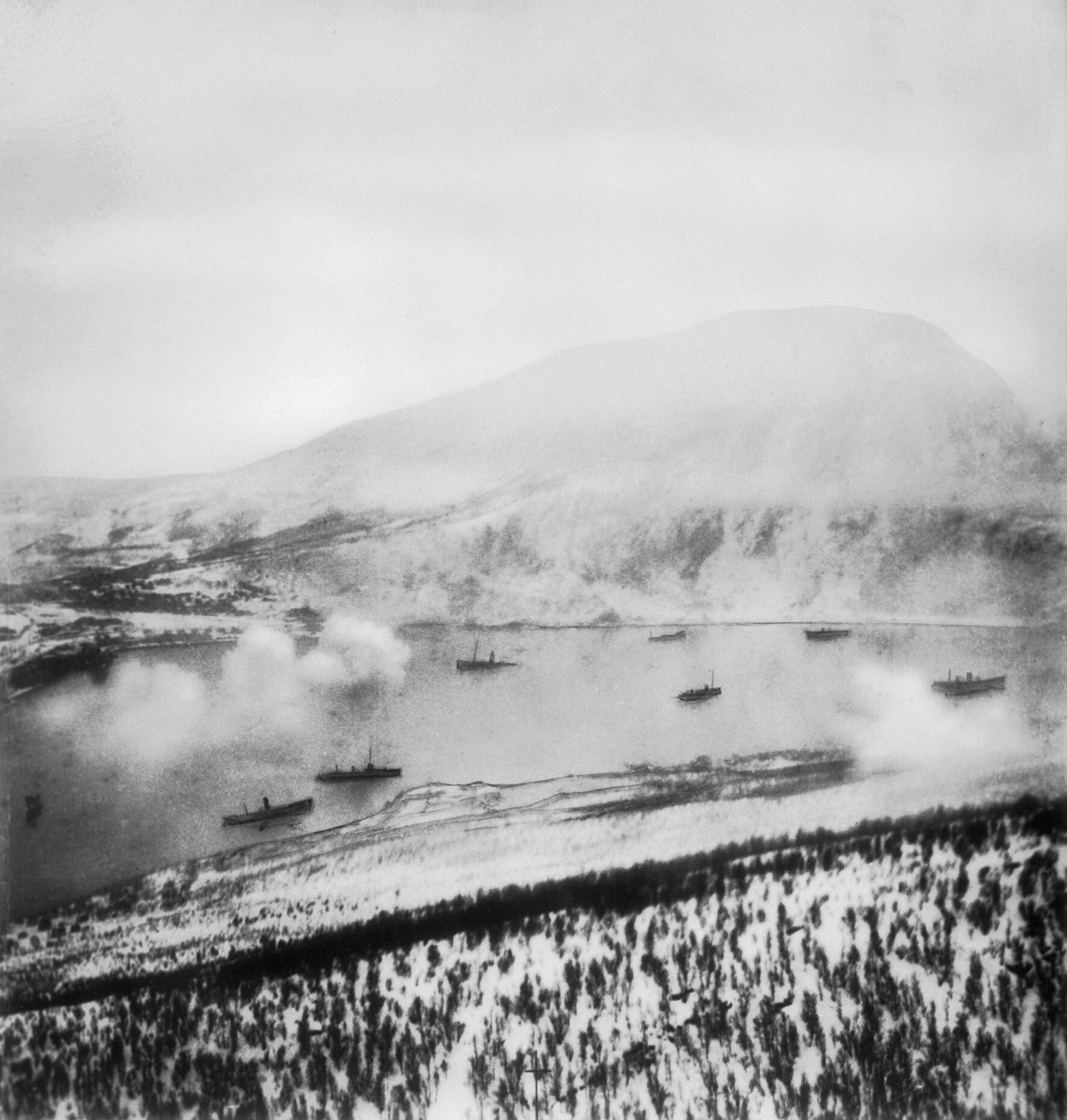 The wrecks of German supply ships sunk or left derelict at Narvik in Norway after the Royal Navy's attack on 13 April 1940. Narvik Harbour showing the wrecks of German supply ships sunk or left derelict after the raid of the Second Destroyer Flotilla on 13 April 1940, the second British naval action off Narvik.